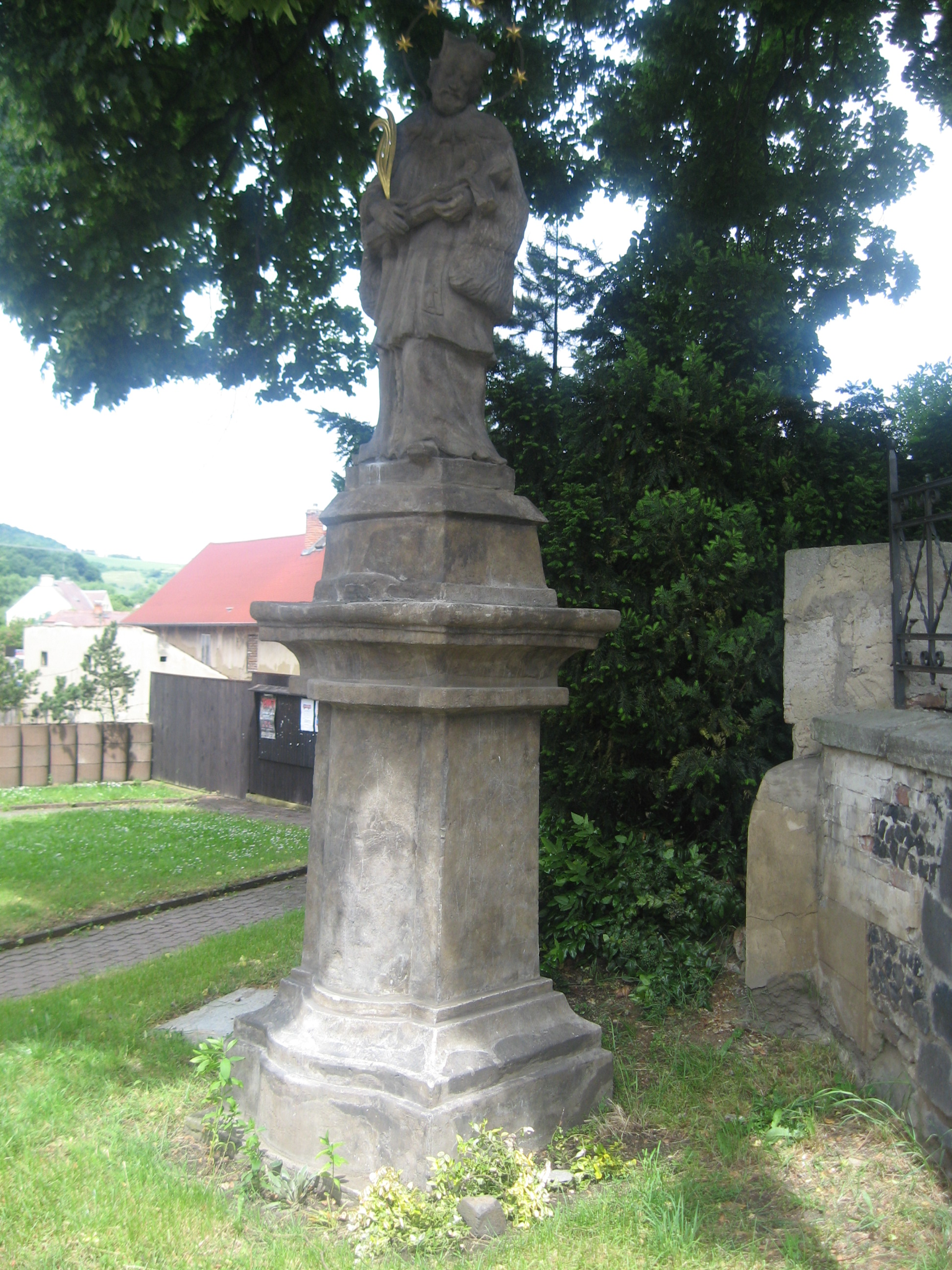 Statue of St. John of Nepomuk in Řehlovice